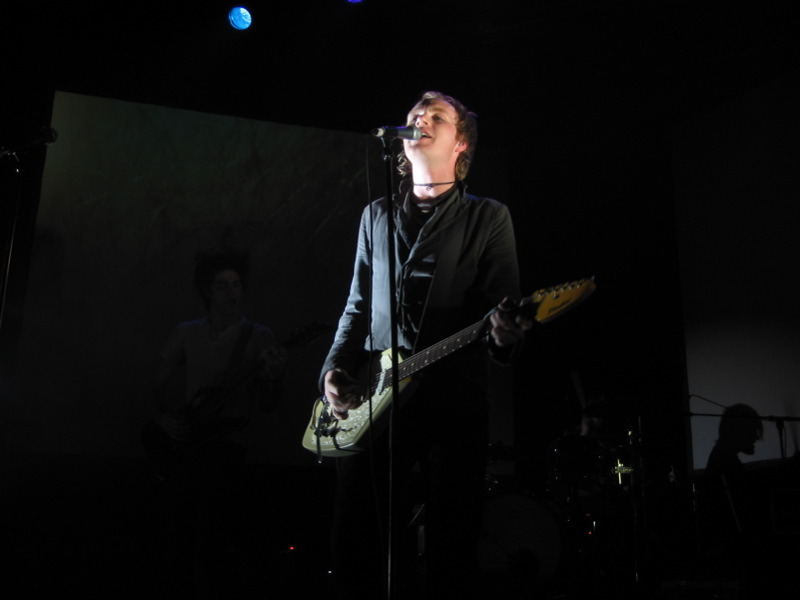 In the foreground, Todd Fink, (formerly named Todd Baechle, and perhaps even Carl Baechle before that,) as well as two other members of the band The Faint (formely named "Norman Bailer") in the background.